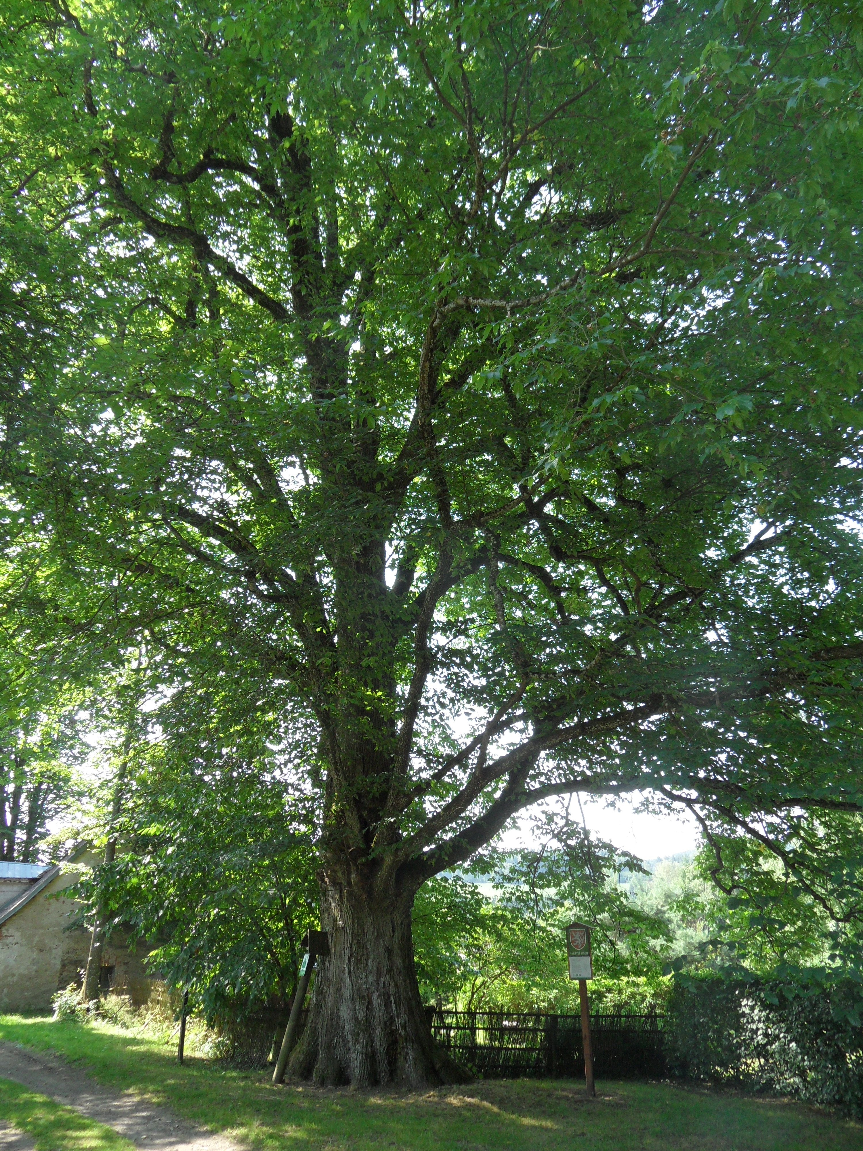 Přemilov 1. Famous tree Ulmus minor, View from Road. Chrudim District, the Czech Republic.